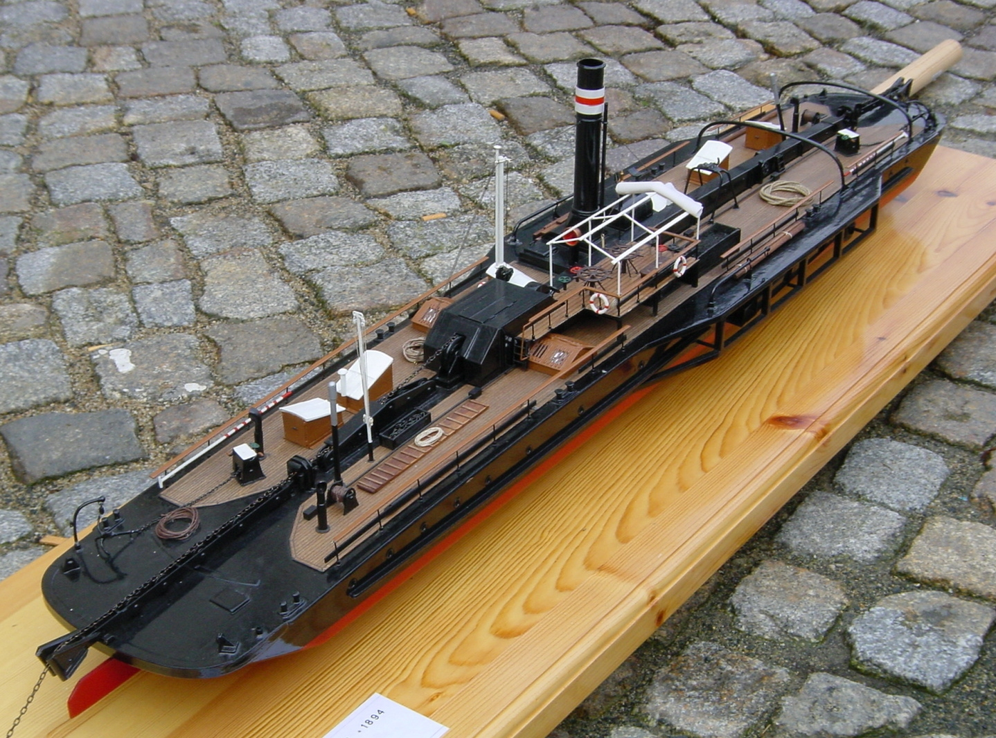 Model of a chain ship /chain driven vessel, named Gustav Zeuner